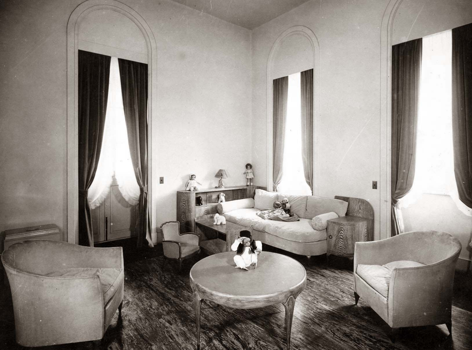 The room of Princess Ferial of Egypt in Abdeen Palace.